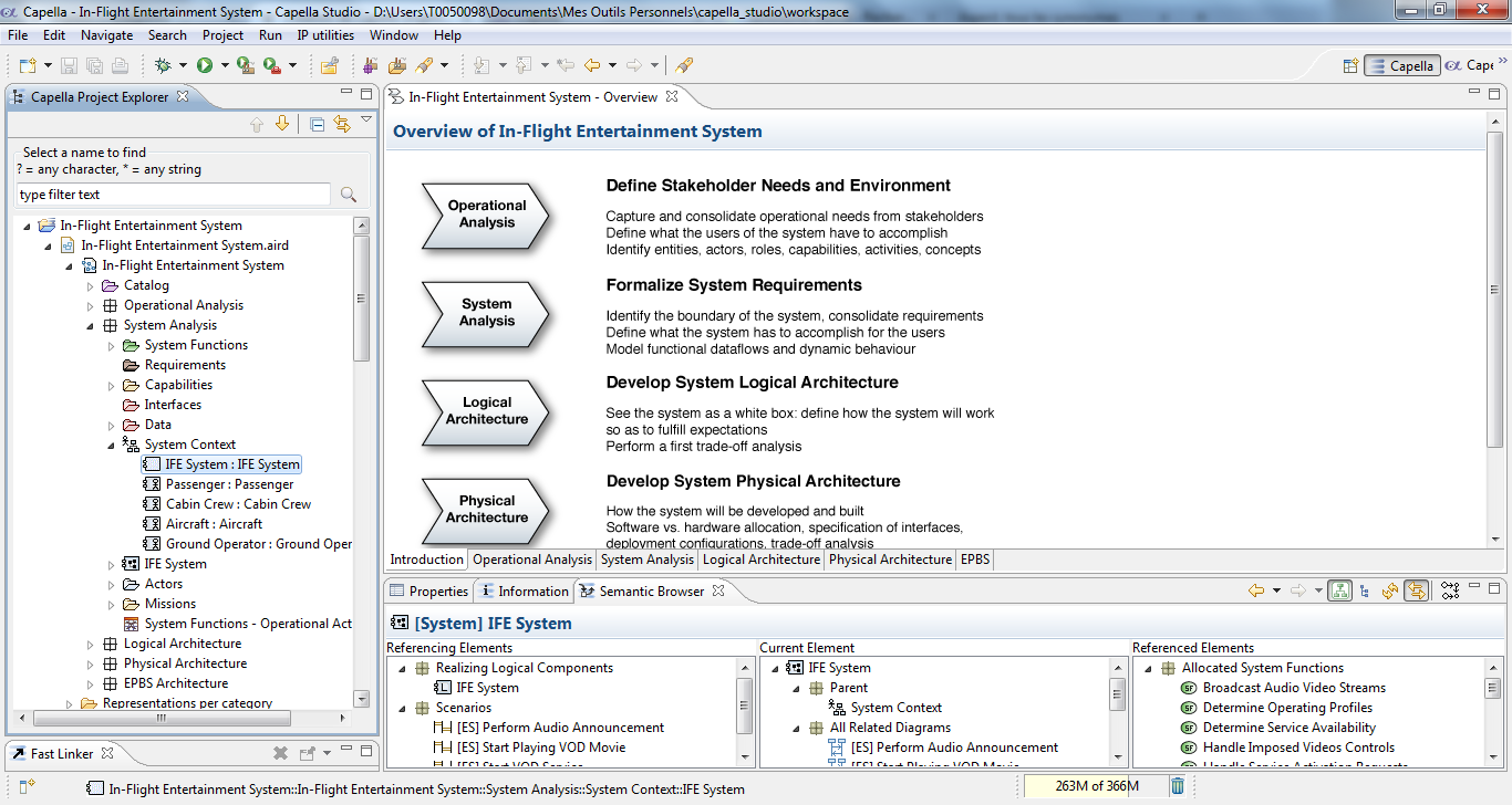 Capella HMI using IFE sample